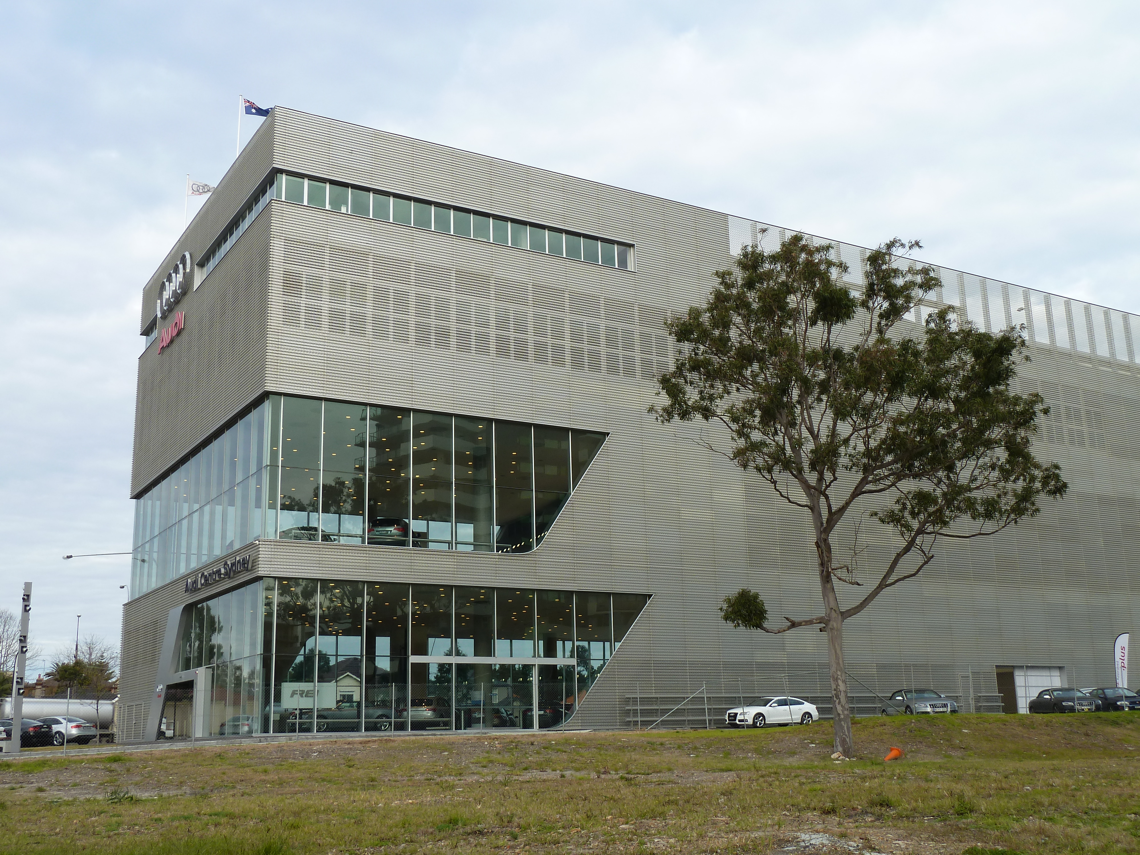 Audi Centre Sydney, Zetland, New South Wales, Australia.